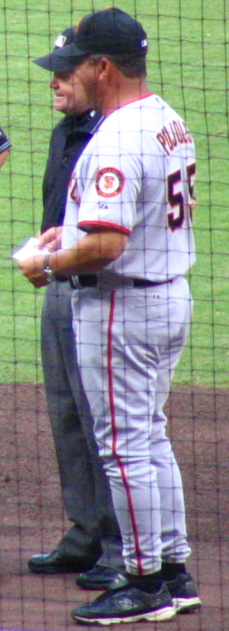 Luis Pujols of the San Francisco Giants and a Washington Nationals coach exchange lineup cards prior to a 2006 game between the teams.